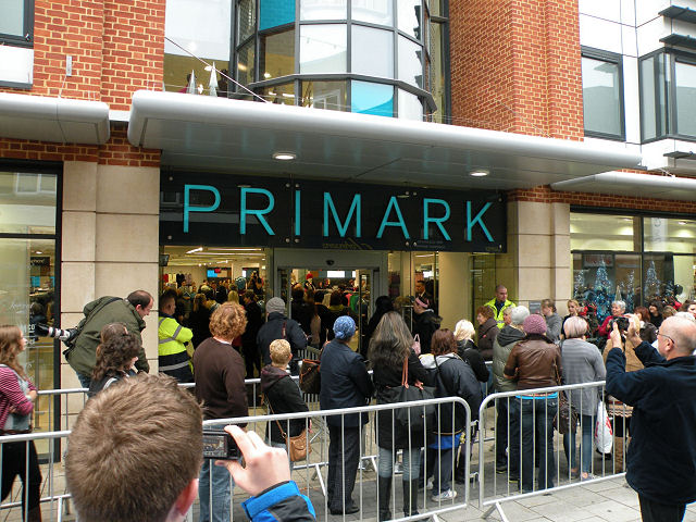 Hurry while stocks last! With no fanfare and no celebrity the new Primark admits its first customers.